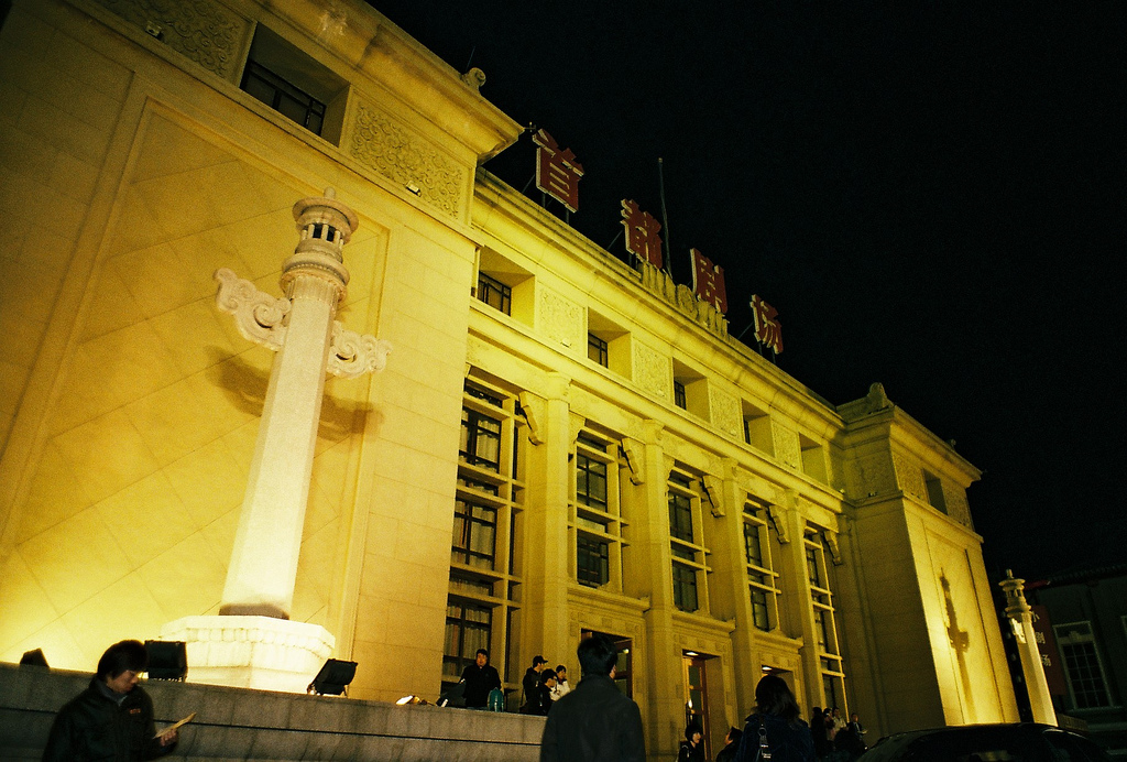 The Capital Theatre in Beijing.